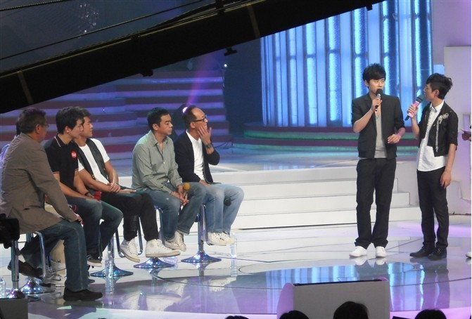 Happy Camp is a Chinese variety show produced by Hunan Broadcasting System. The series debuted in 1997, and has remained in production since then due to its popularity. The show was hosted by the Happy Family: He Jiong, Li Weijia, Xie Na, and Wu Xin.中文（中国大陆）: 2009年7月，何炅、李维嘉、谢娜、吴昕主持的《快乐大本营》，嘉宾是古天乐。